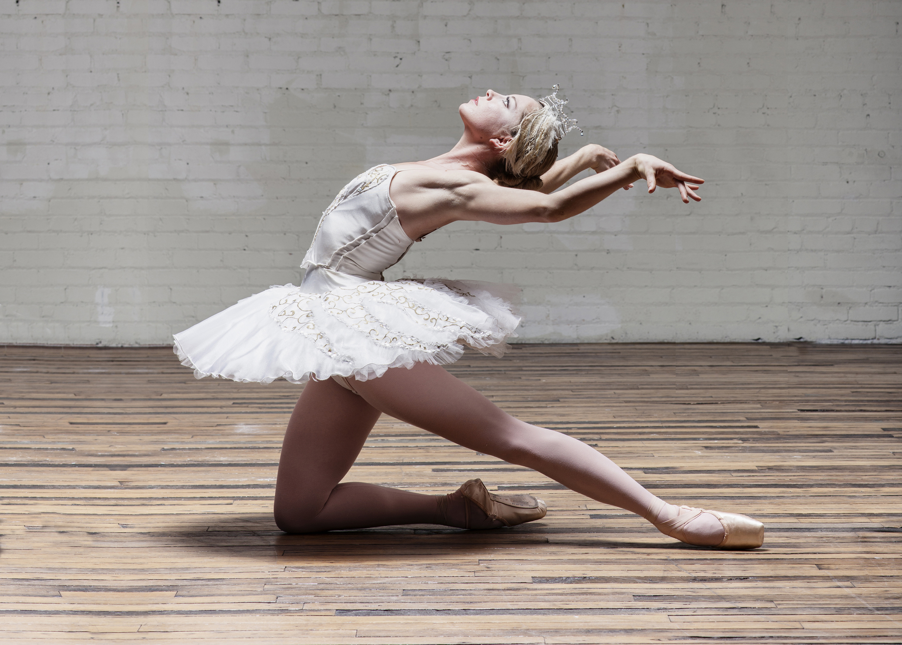 Dancer Molly Wagner Photographer Kenny Johnson